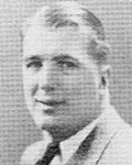 French footballer (career ended in 1938)